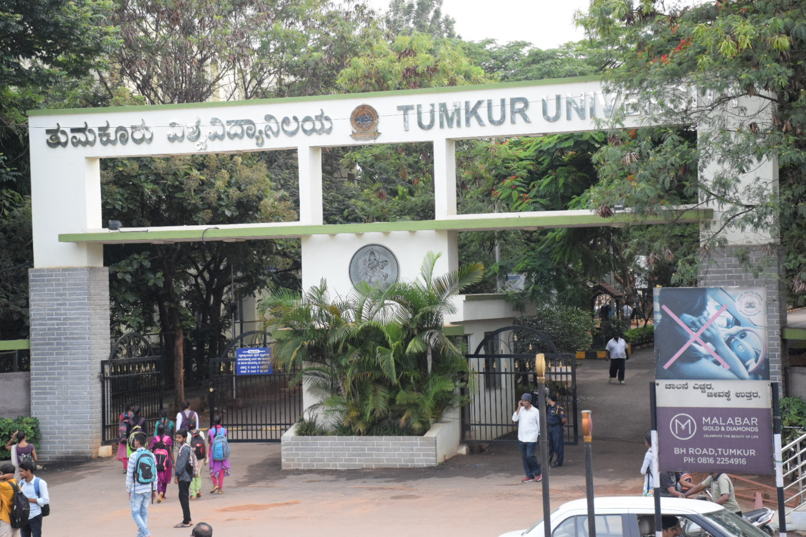 Tumkur university science 1